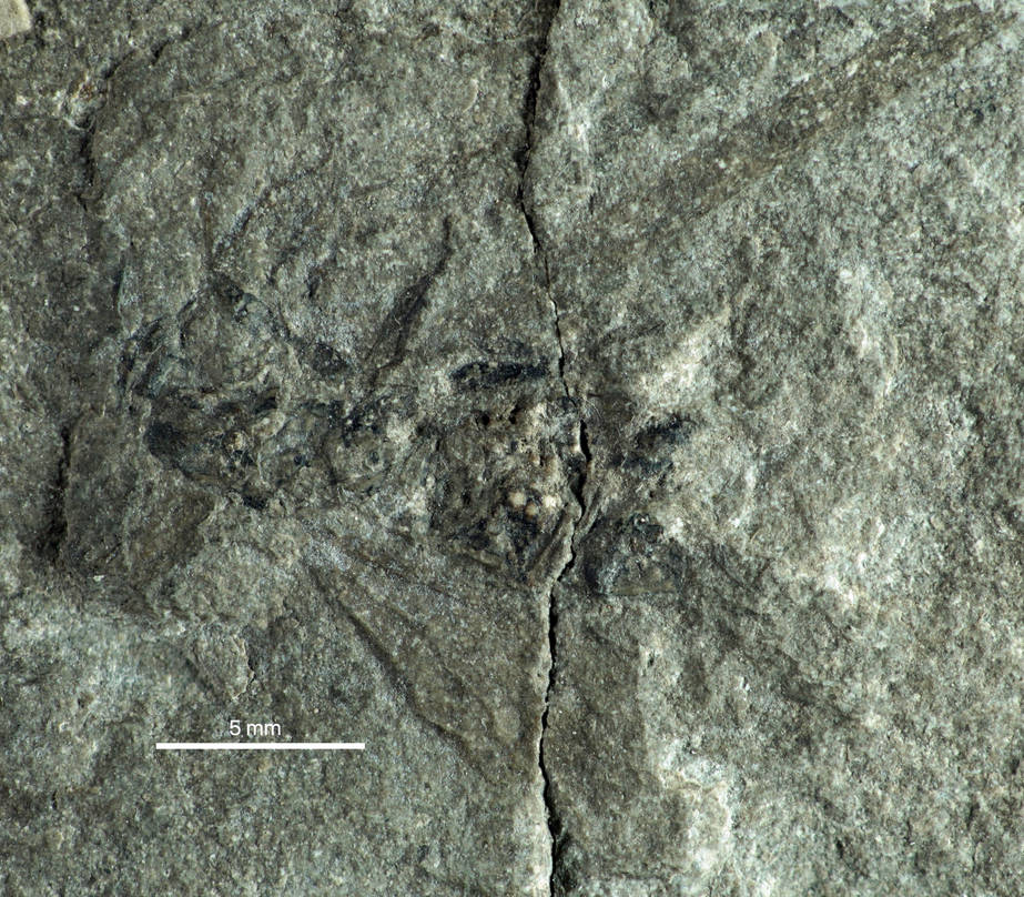 The Camponotus induratus holotype queen. Burdigalian; Radoboj deposits; Radoboj area, Krapinsko-Zagorska, Croatia. Universalmuseum Joanneum Graz, Styria, Austria; specimen UMJ77632